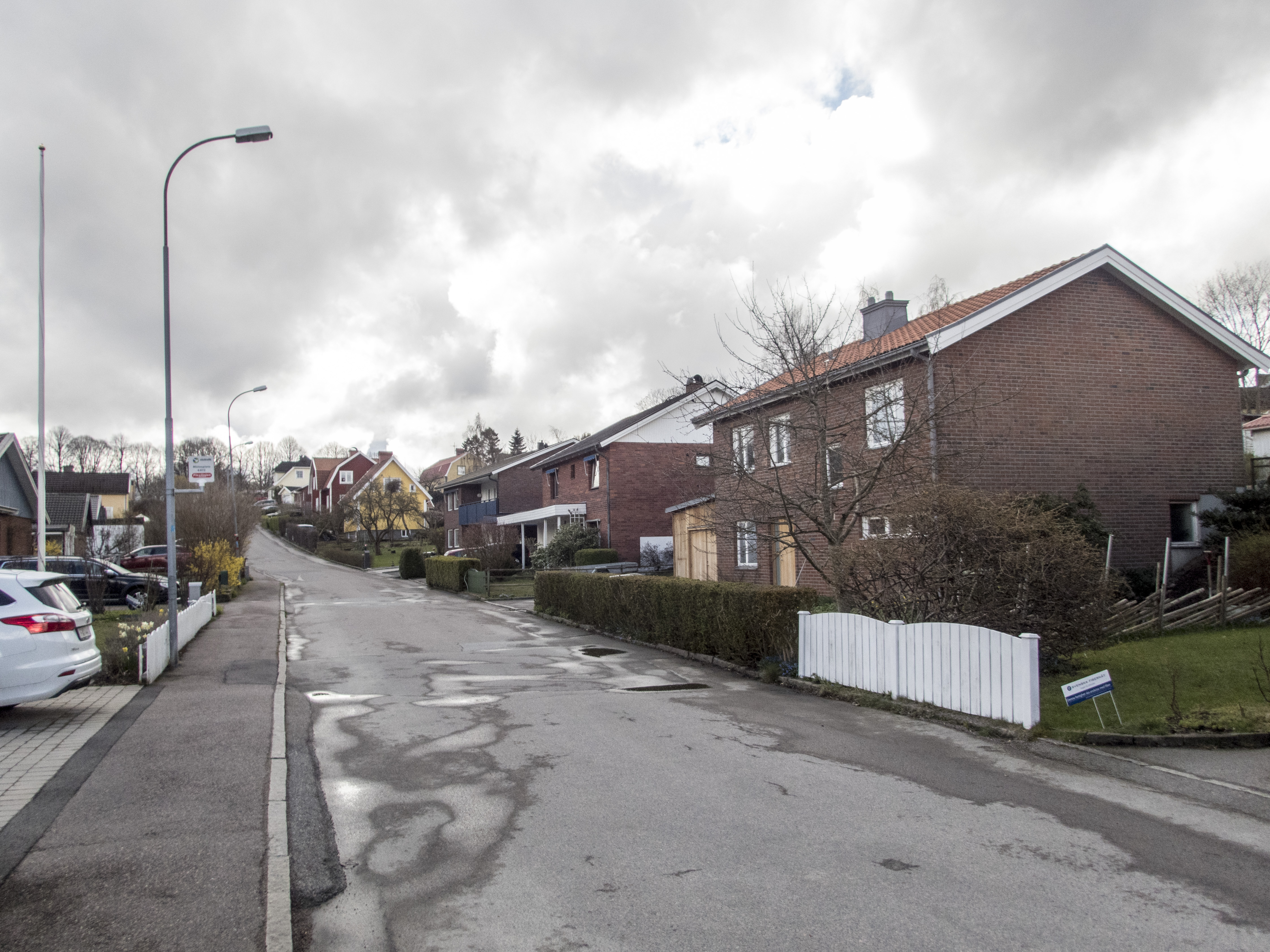 Ejdergatan, Mölndal